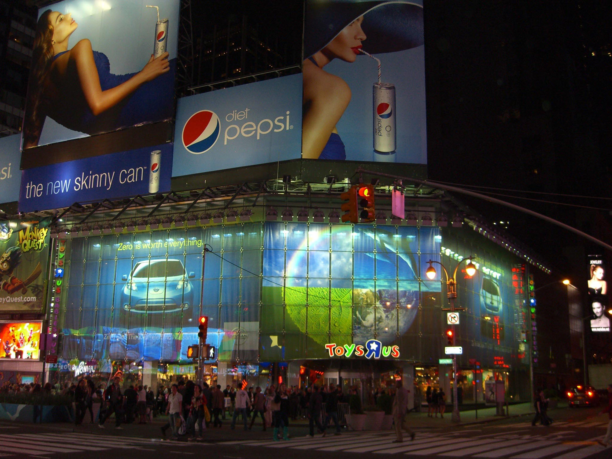 The flagship Toys R Us store in Times Square in Manhattan, photographed April 28, 2011. Photographed by Luigi Novi. This photo is not in the public domain. It may, however, be used, modified and published for any purpose, free of charge, only if the photographer is properly credited, either by linking the photograph to this page, or with an easily visible credit to the photographer placed near the photo in each instance in which it is used. (See licensing information below.) Publication of this photo without this proper attribution constitutes copyright infringement. If you have any questions, you can contact me on my Wikipedia Talk Page.